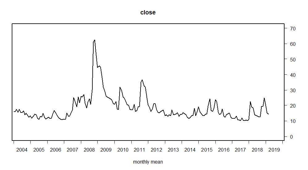 using an R program, monthly means of the daily close of the CBOE VIX volatility index 2004 jan to 2019 feb were computed. (